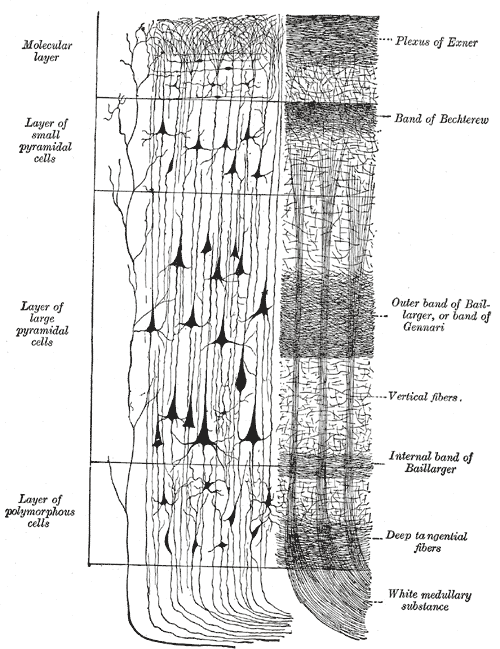 Cerebral cortex. (Poirier.) To the left, the groups of cells; to the right, the systems of fibers. Quite to the left of the figure a sensory nerve fiber is shown. Cell body layers are labeled on the left, and fiber layers are labeled on the right.